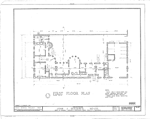 First Floor Plan of the John J. Glessner House, 1800 South Prarie Avenue, Chicago, Illinois (1885-87), Henry Hobson Richardson, architect.